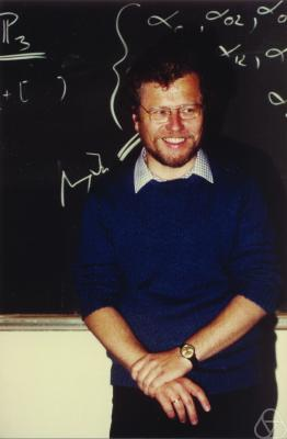 Wolf Barth, German mathematician, at the DMV Jahrestagung 1980 in Dortmund